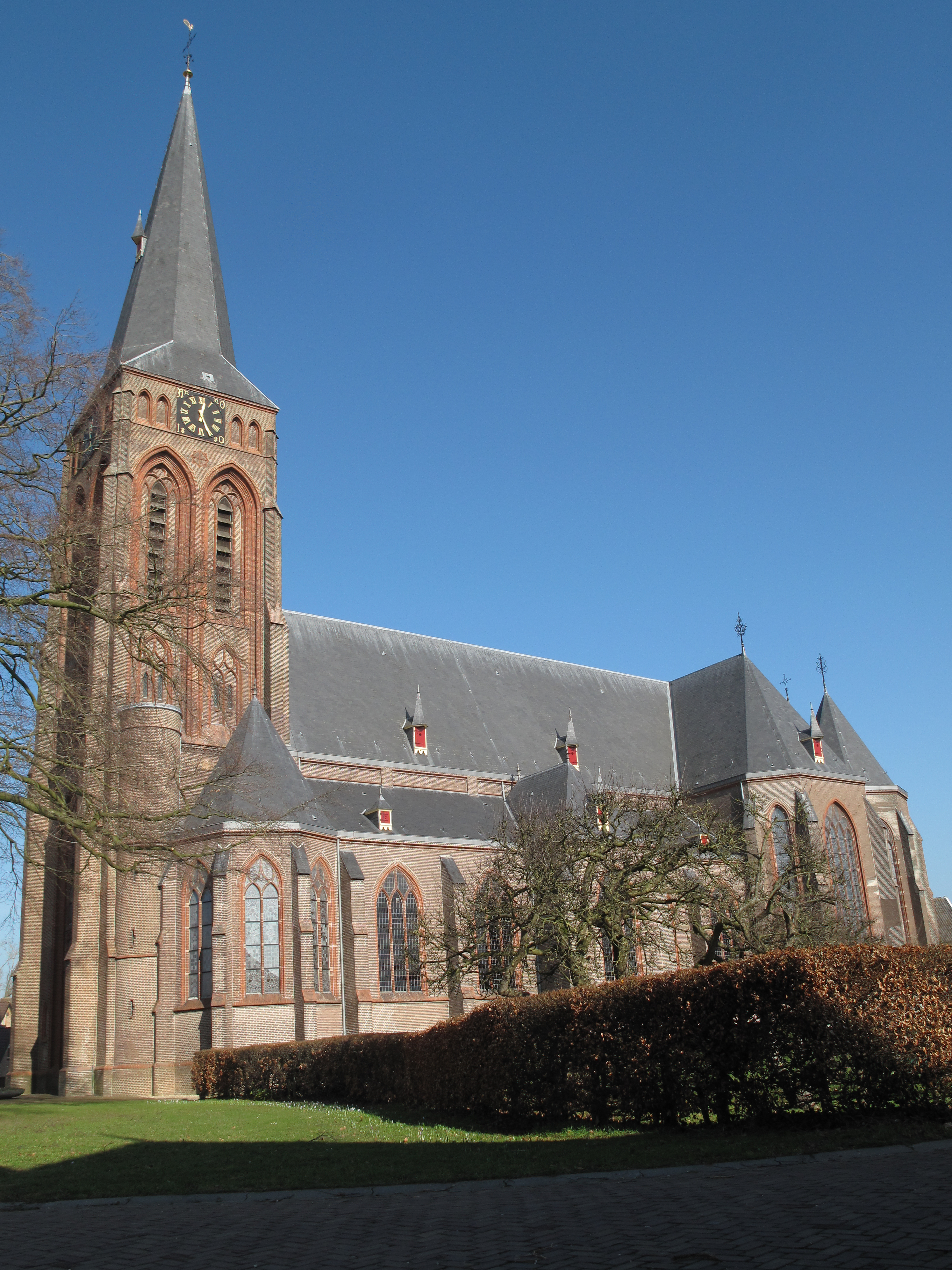 Baak, church: de Sint Martinuskerk